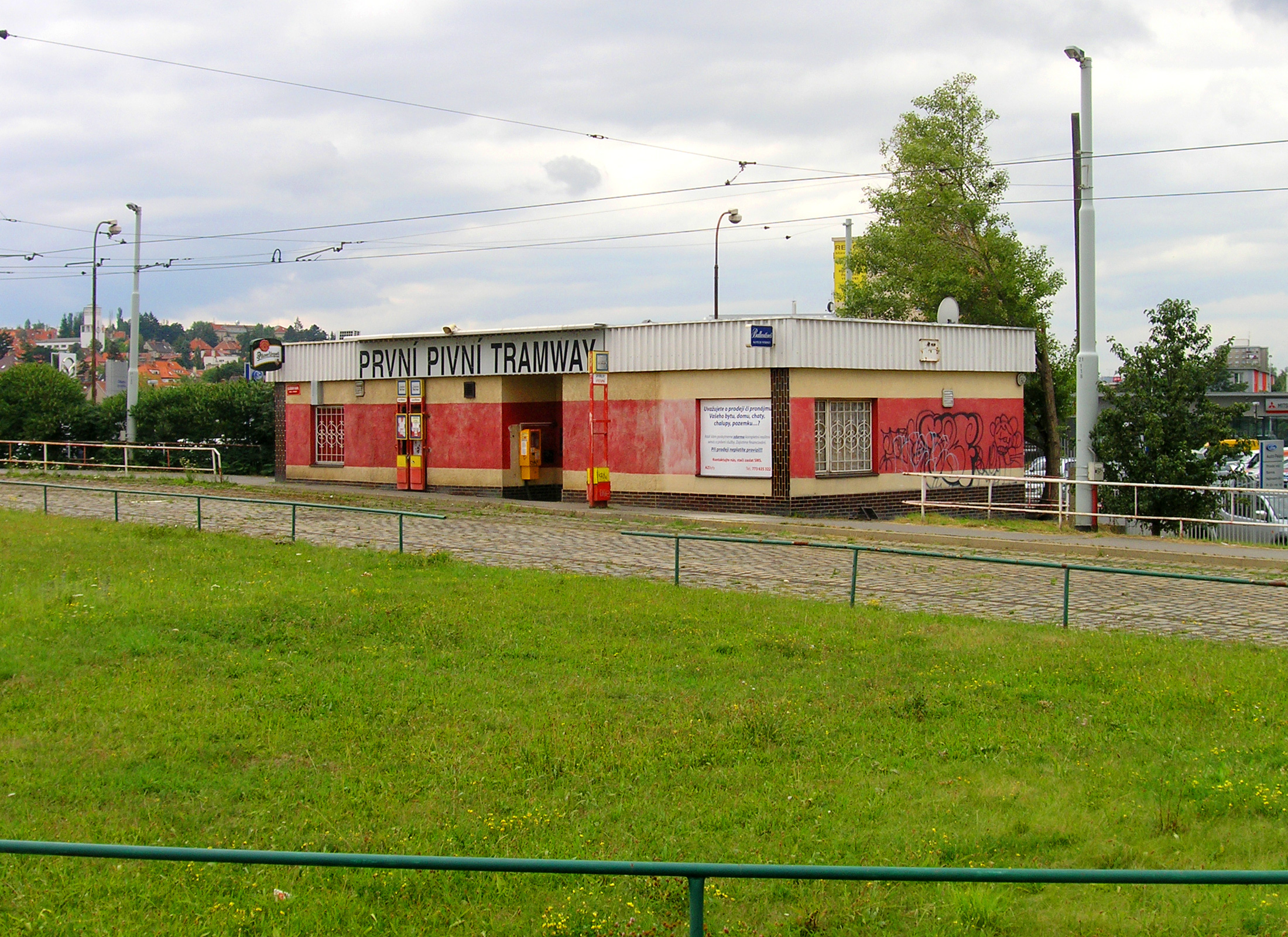 První pivní tramway pub at Spořilov, Prague